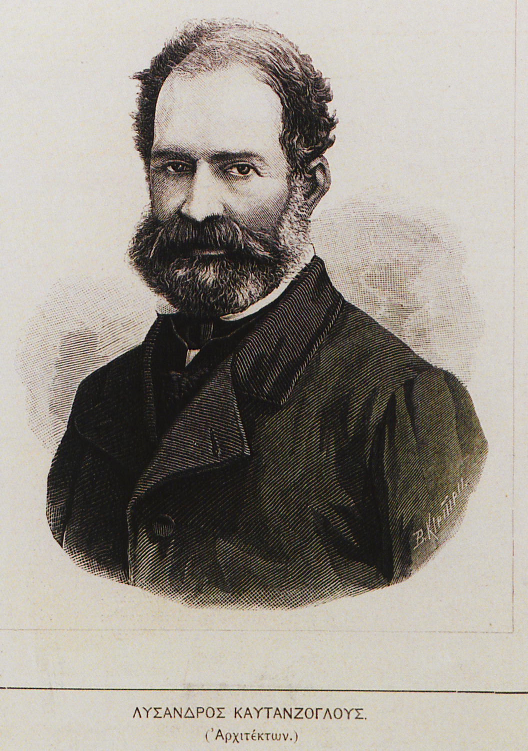 Lysandros Kautantzoglou